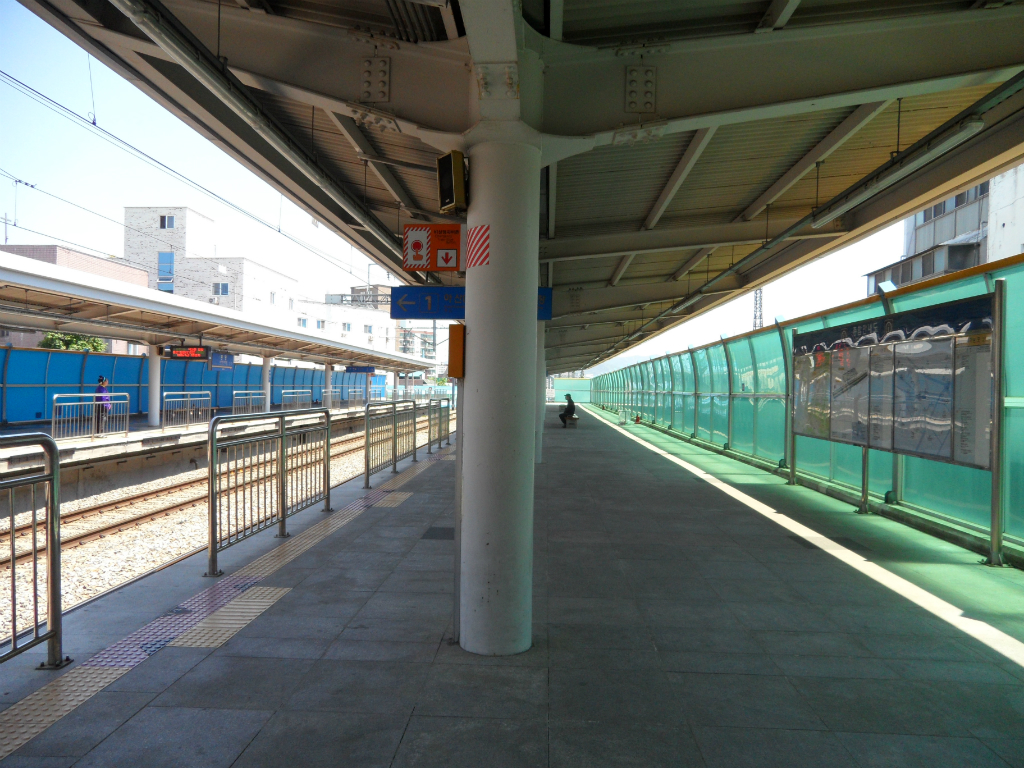 Platform of Bongmyeong Staiton